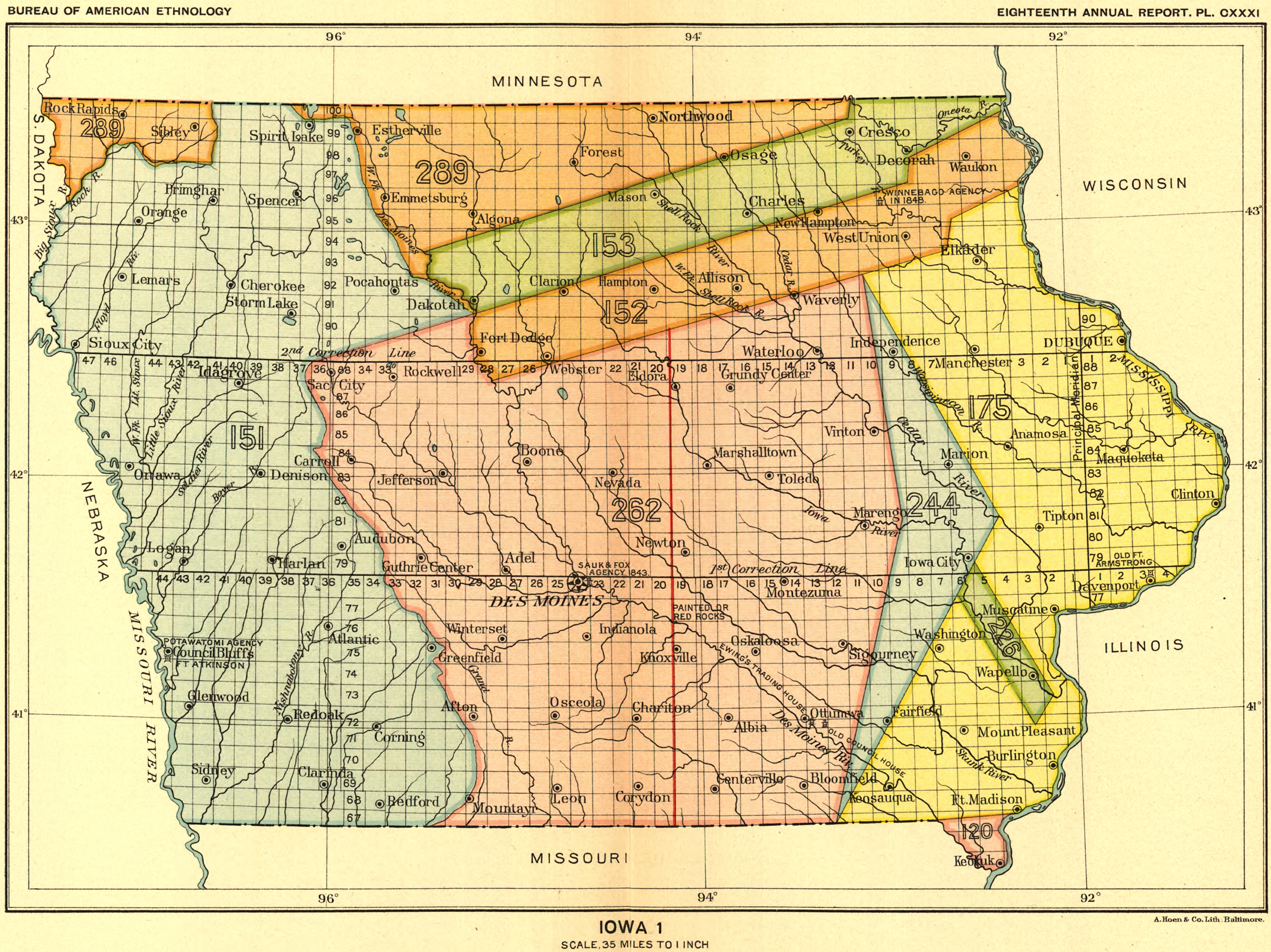 Map showing the land ceded in the state of Iowa to the United States by Native Americans in various treaties.